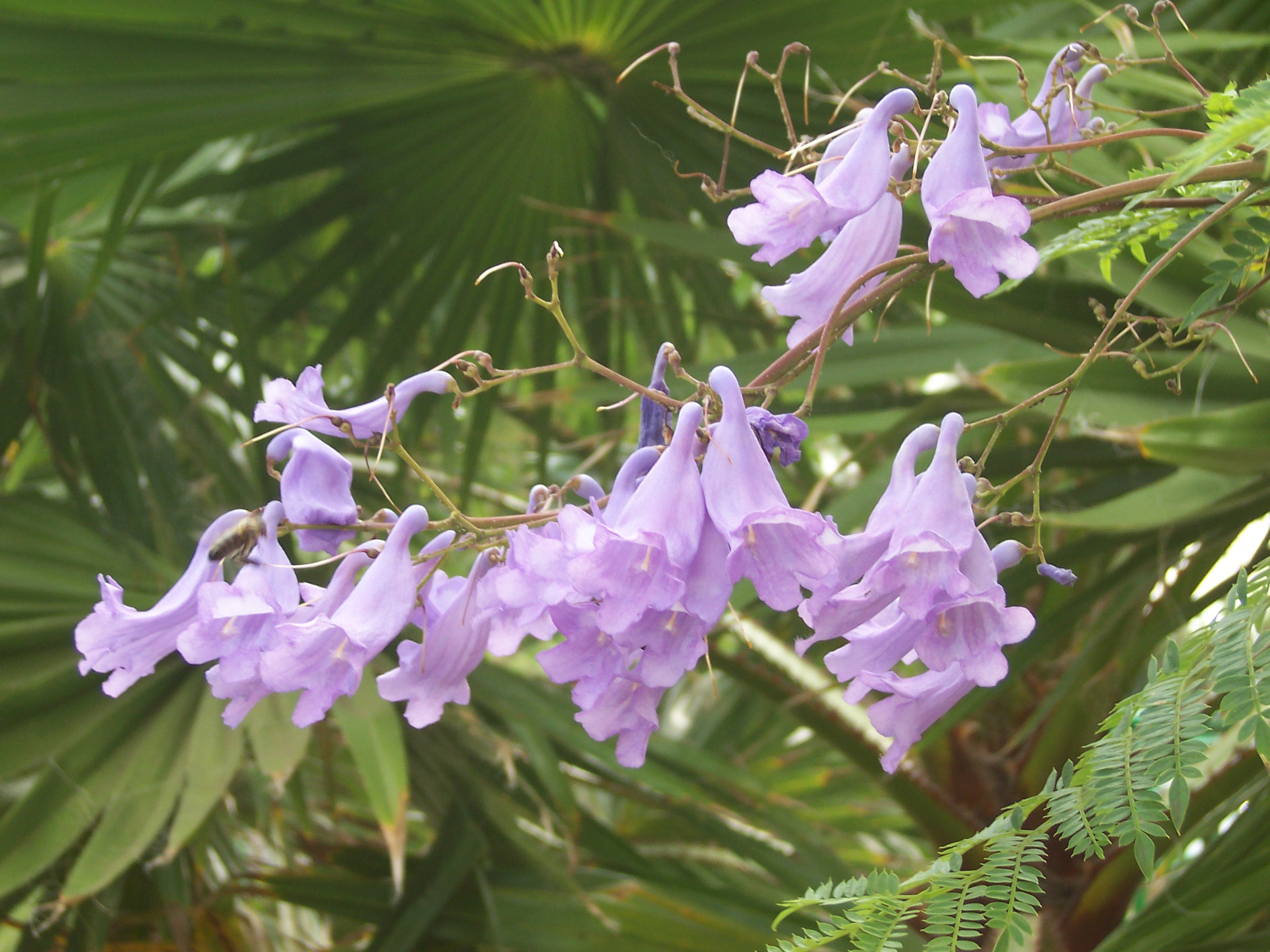 Flowers of Jacaranda mimosifolia